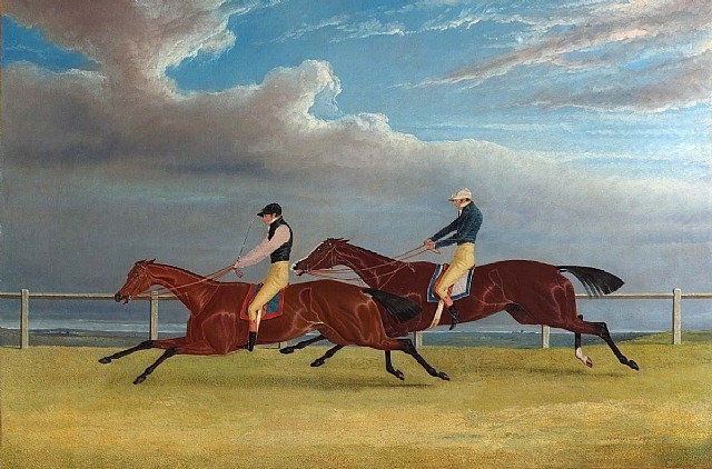 Finish of the 1827 St Leger. Matilda beats Mameluke. By John Frederick Herring Sr (1795-1865). Artist dead for 147 years.